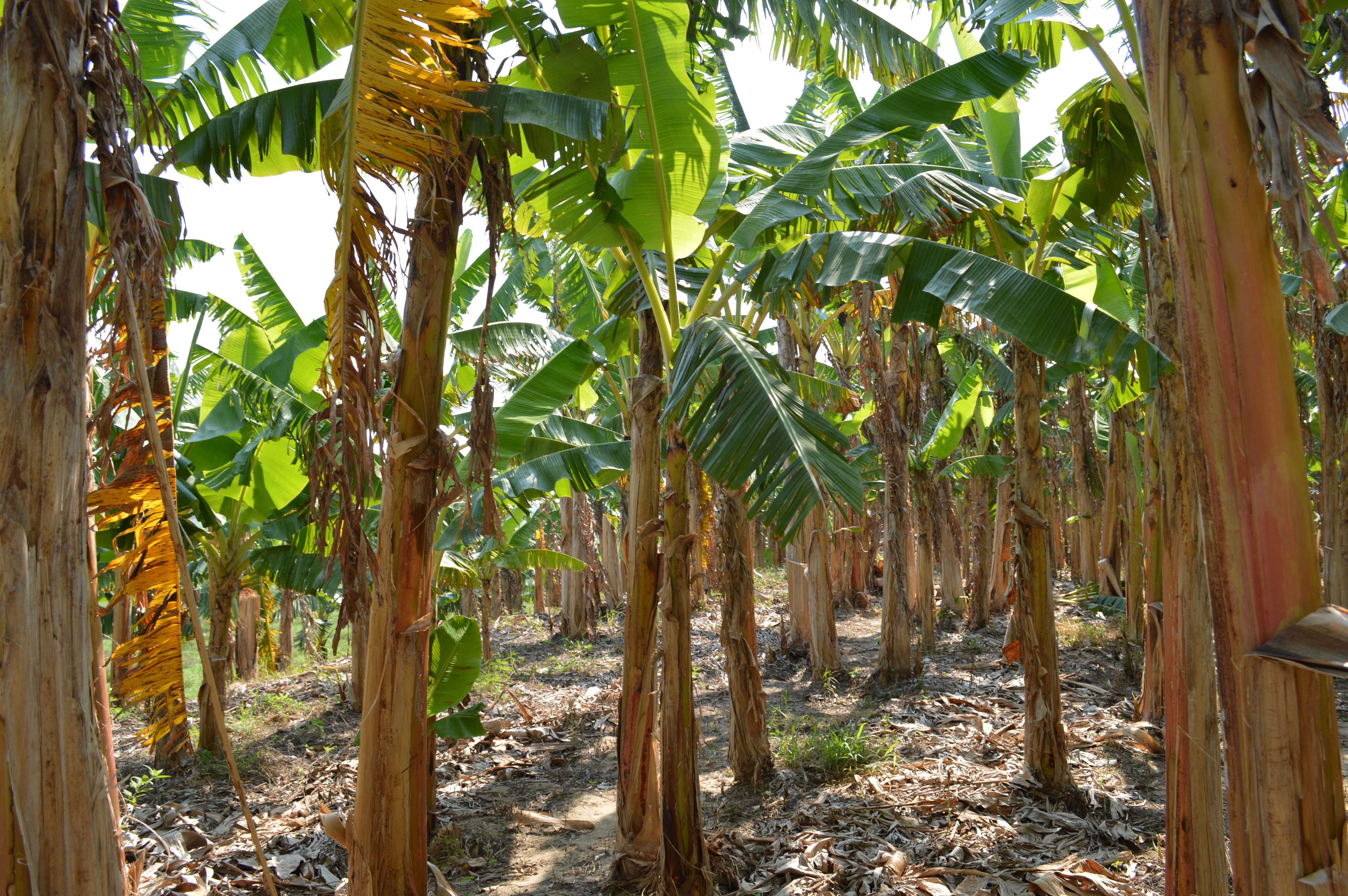 Banana trees growing near Otatitlan, Veracruz, Mexico